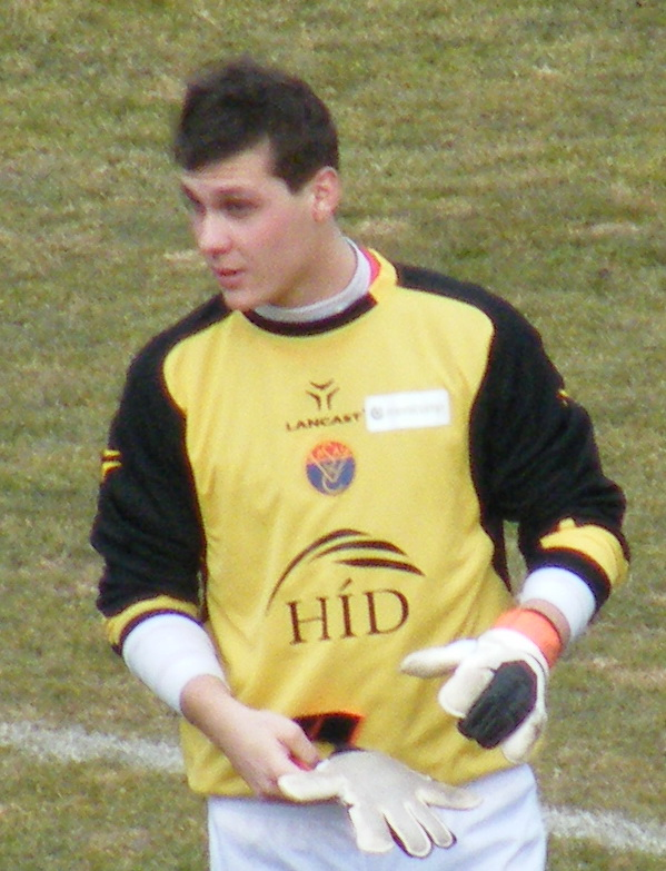 Ákos Tulipán Hungarian football player